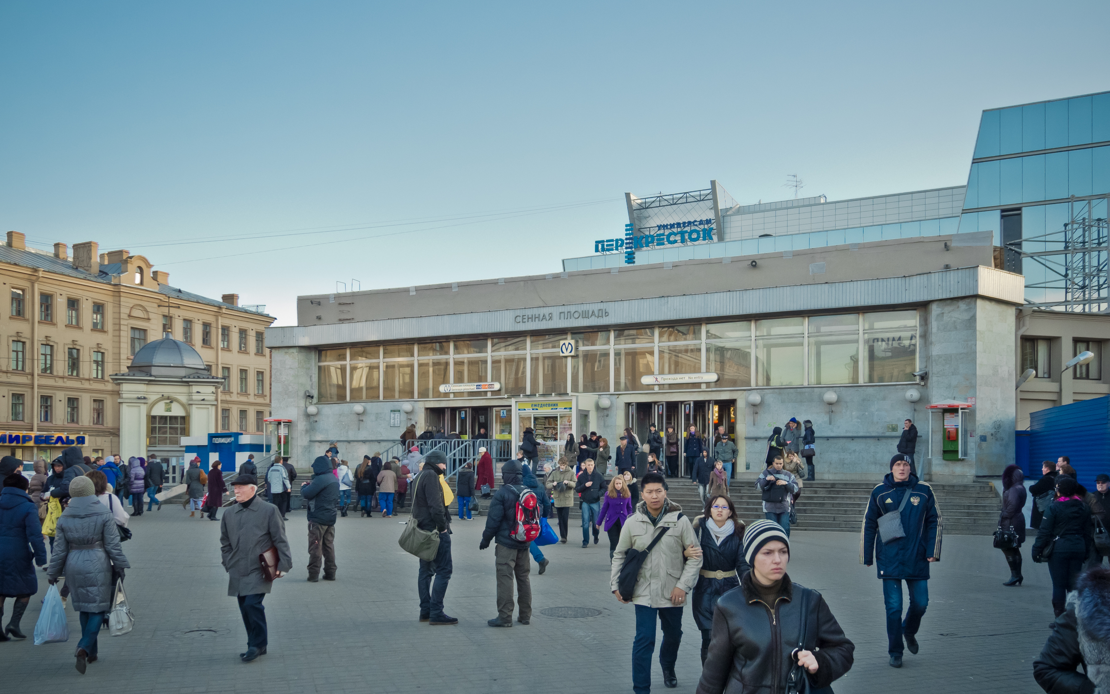 Sennaya Ploshchad station of Saint Petersburg Metro, pavilion